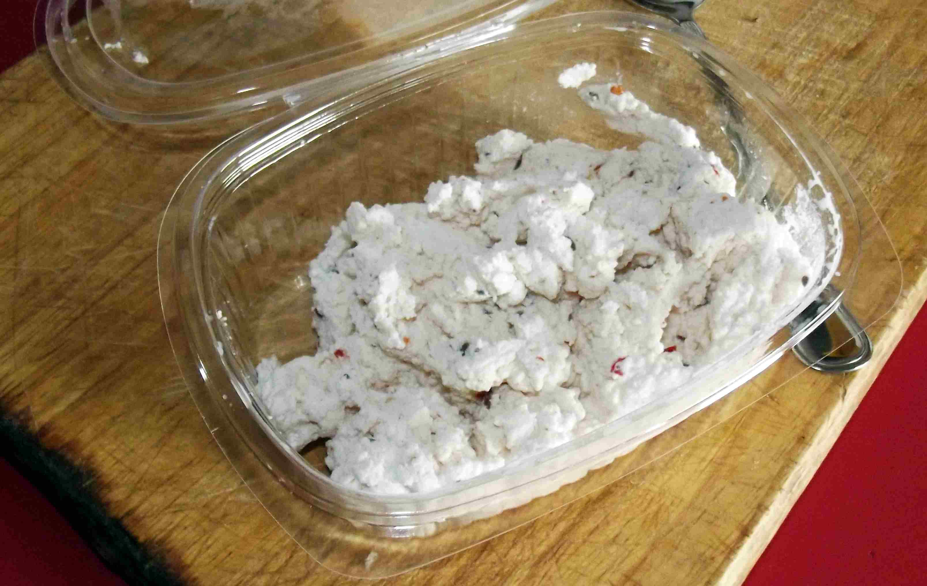 Salignon (a traditional recipe from Canavese and Aosta Valley -Italy)